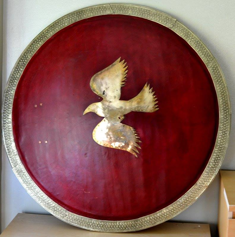 Type 1 completed exterior or front